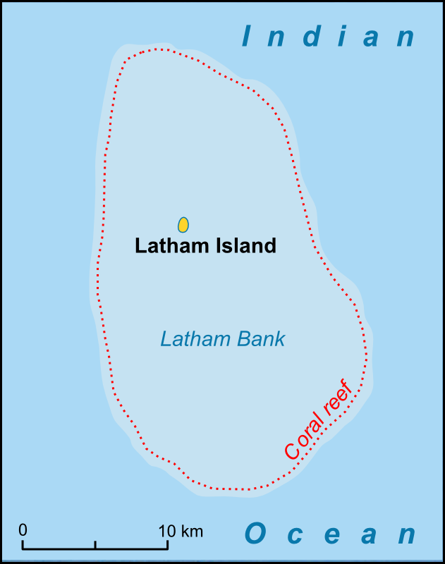 Map of Latham Island near Tanzania